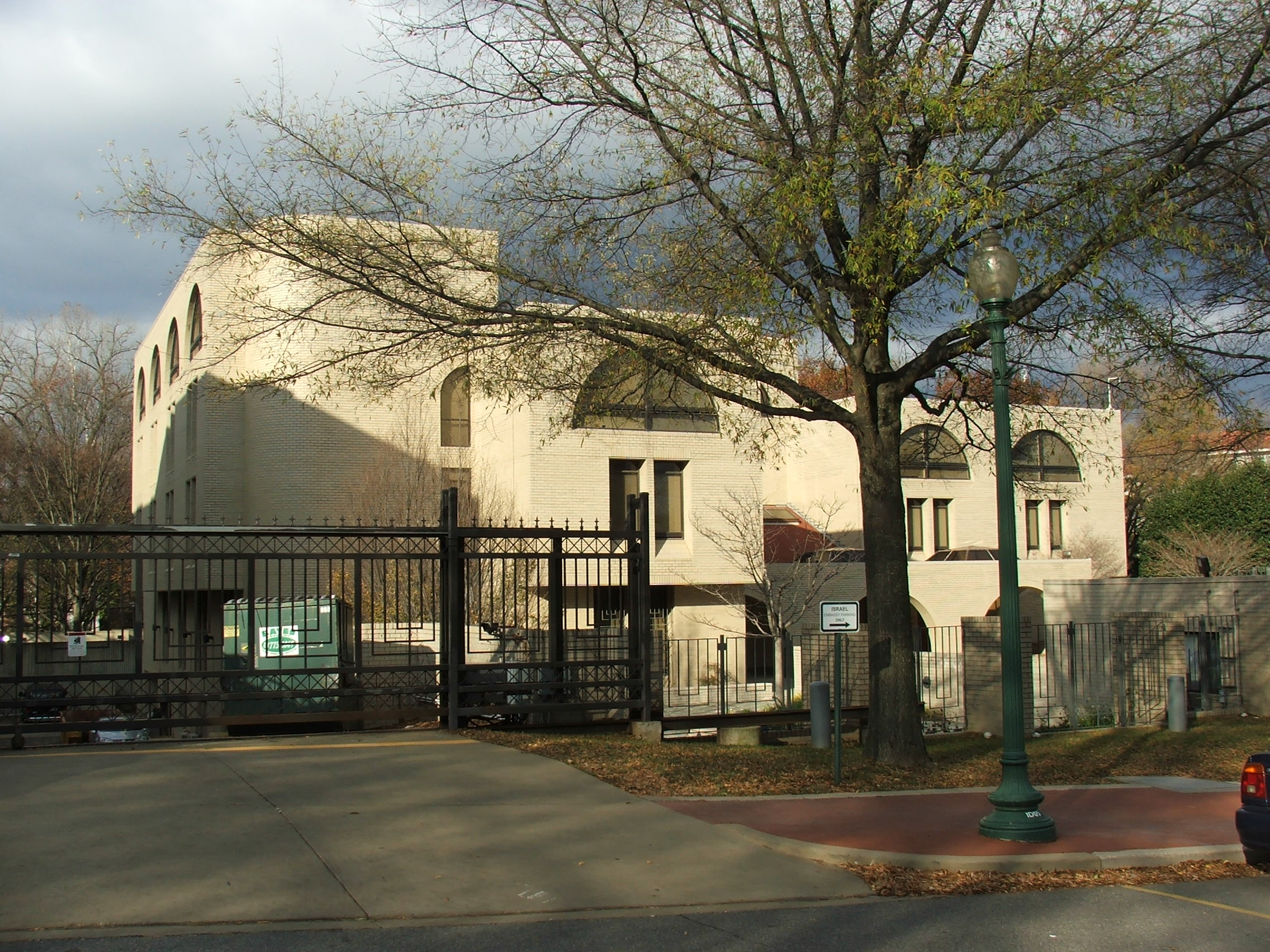 Embassy of Israel in the United States, located at 3514 International Drive, NW in Washington, D.C.